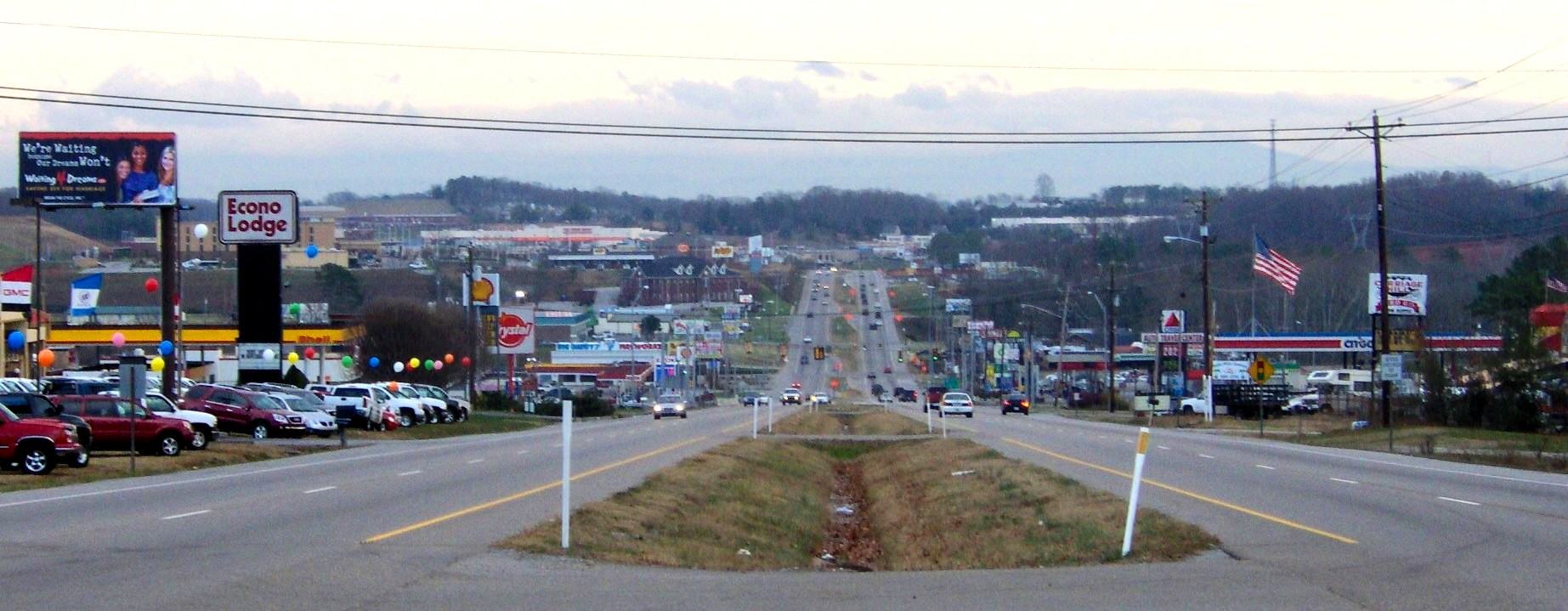 U.S. Route 321 (Lamar Alexander Parkway) in Lenoir City, Tennessee, USA. The view is south, with the road's junction with I-75 toward the center of the image.